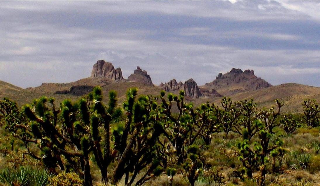 Castle Peaks at Mojave National Preserve